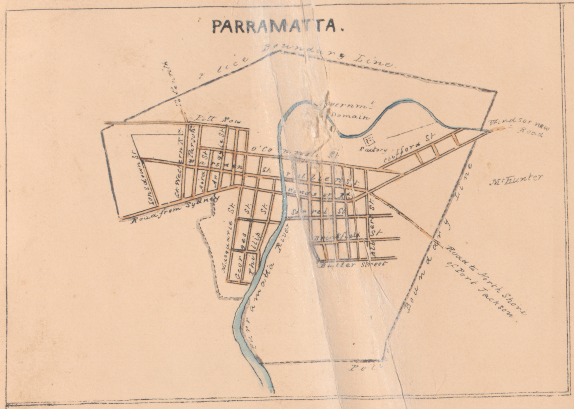 Map of Town of Parramatta, cropped from the Map of the County of Cumberland, NSW